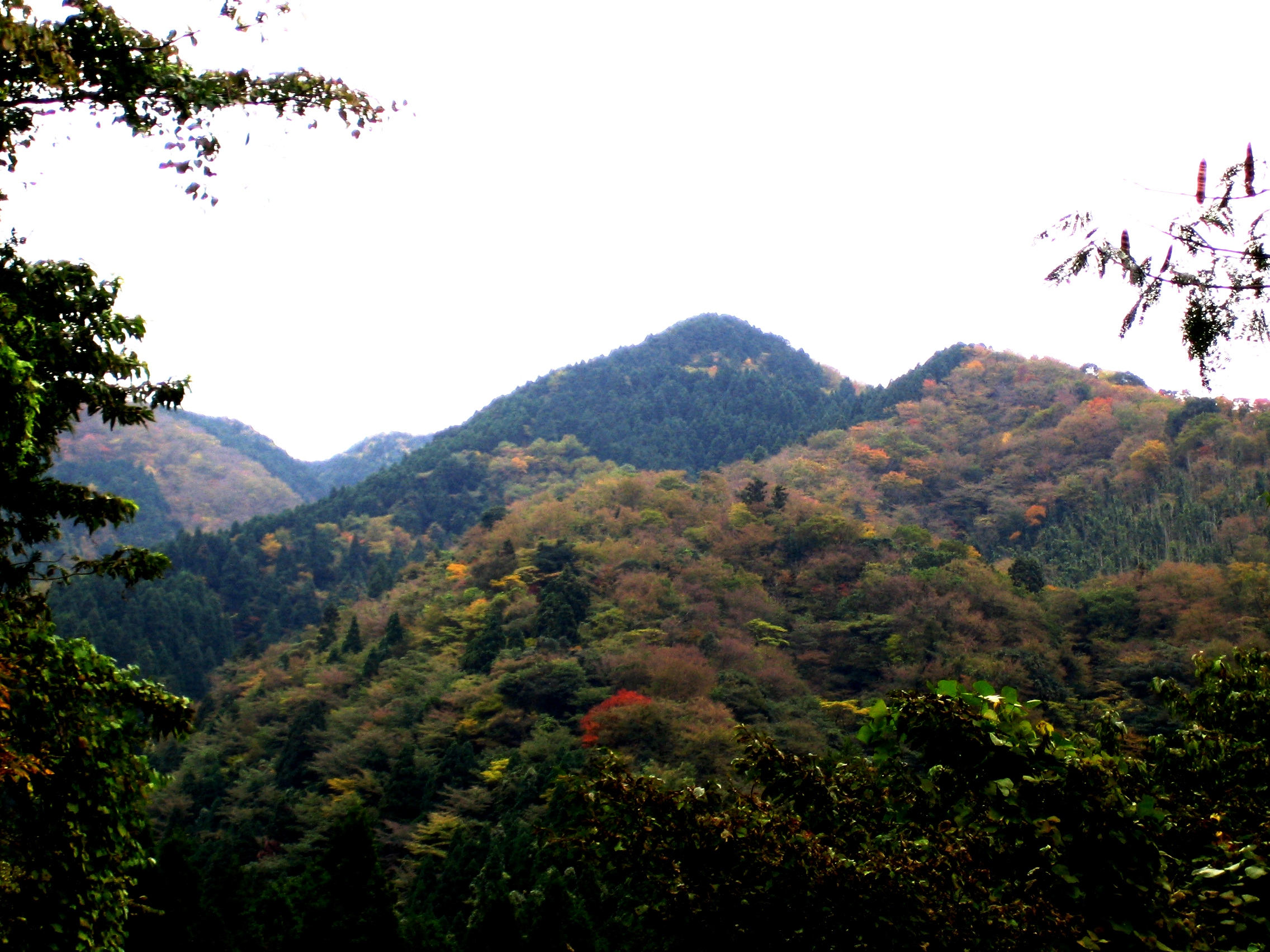 Mount Sefuri seen from north, in Kyushu, Japan.